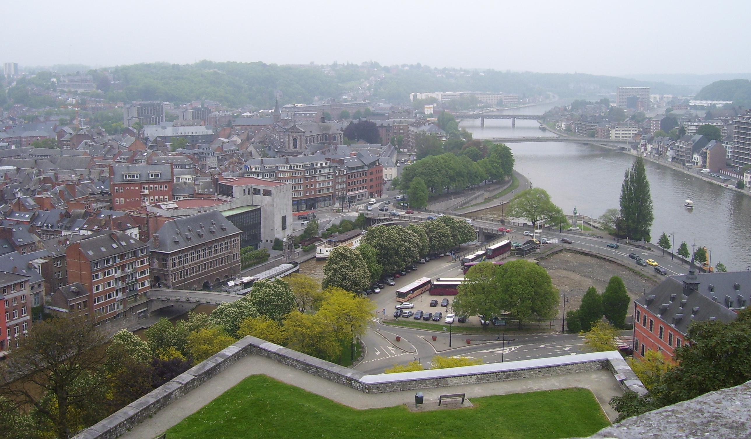 Estuary of the river Sambre into the river Meuse/Maas at Namur in Belgium; picture taken from the citadel of Namur.